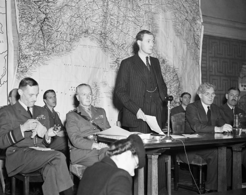 Duncan Sandys MP (standing), Chairman of the War Cabinet Flying Bomb Counter-Measures Committee, delivers his report announcing victory over the German V-1 flying bomb attacks on London, at a press conference at the Ministry of Information. Sitting by him in the front row are are, (left to right) : Air Vice-Marshal W C C Gell, Air Officer Commanding Balloon Command General Sir Frederick Pile, General Officer Commanding-in-Chief, Anti-Aircraft Command Brendan Bracken MP, Minister of Information Air Marshal Sir Roderic Hill, Air Officer Commanding -in-Chief, Air Defence of Great Britain.